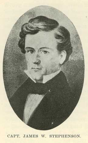 Captain James W. Stephenson, commander of the detachment that engaged a band of Sauk warriors at the Battle of Waddams Grove during the 1832 Black Hawk War, fought in Illinois, and Wisconsin, United States.